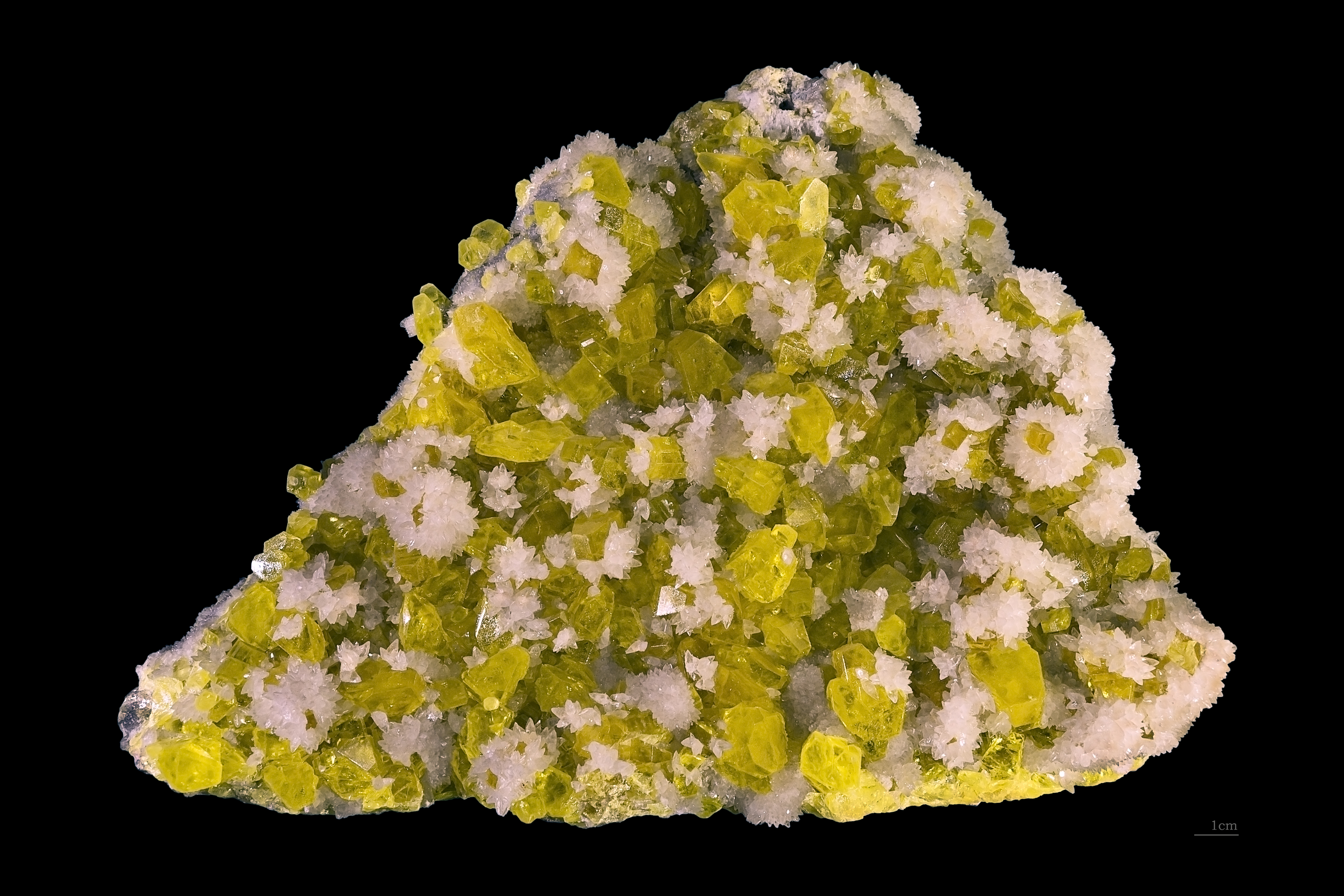 sulphur and calcite Locality: Agrigento (Girgenti), Agrigento Province, Sicily, Italy Size : 22 x 18 x 6 cm